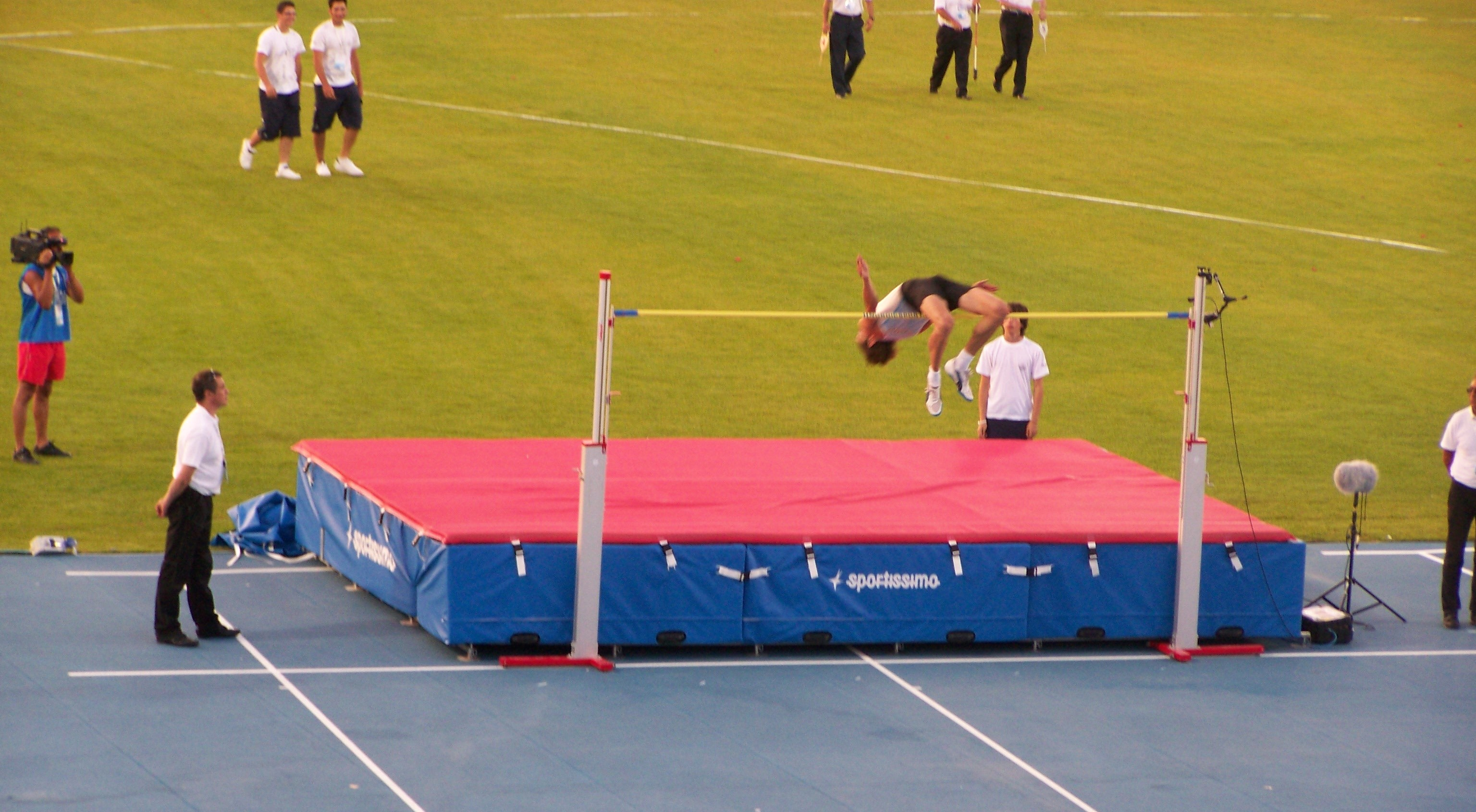 Kyriakos Ioannou during the men's high jump event at the XVI Mediterranean Games in Pescara